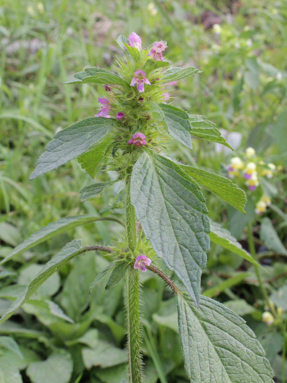 Lamiaceae, Galeopsis bifida